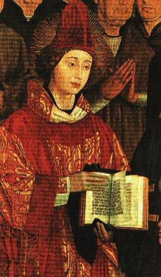 Vincent of Zaragossa, from the Vincent altar, today national museum at Lissabon